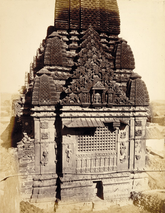 Shiva Temple at Kheda [Kera], Kachch